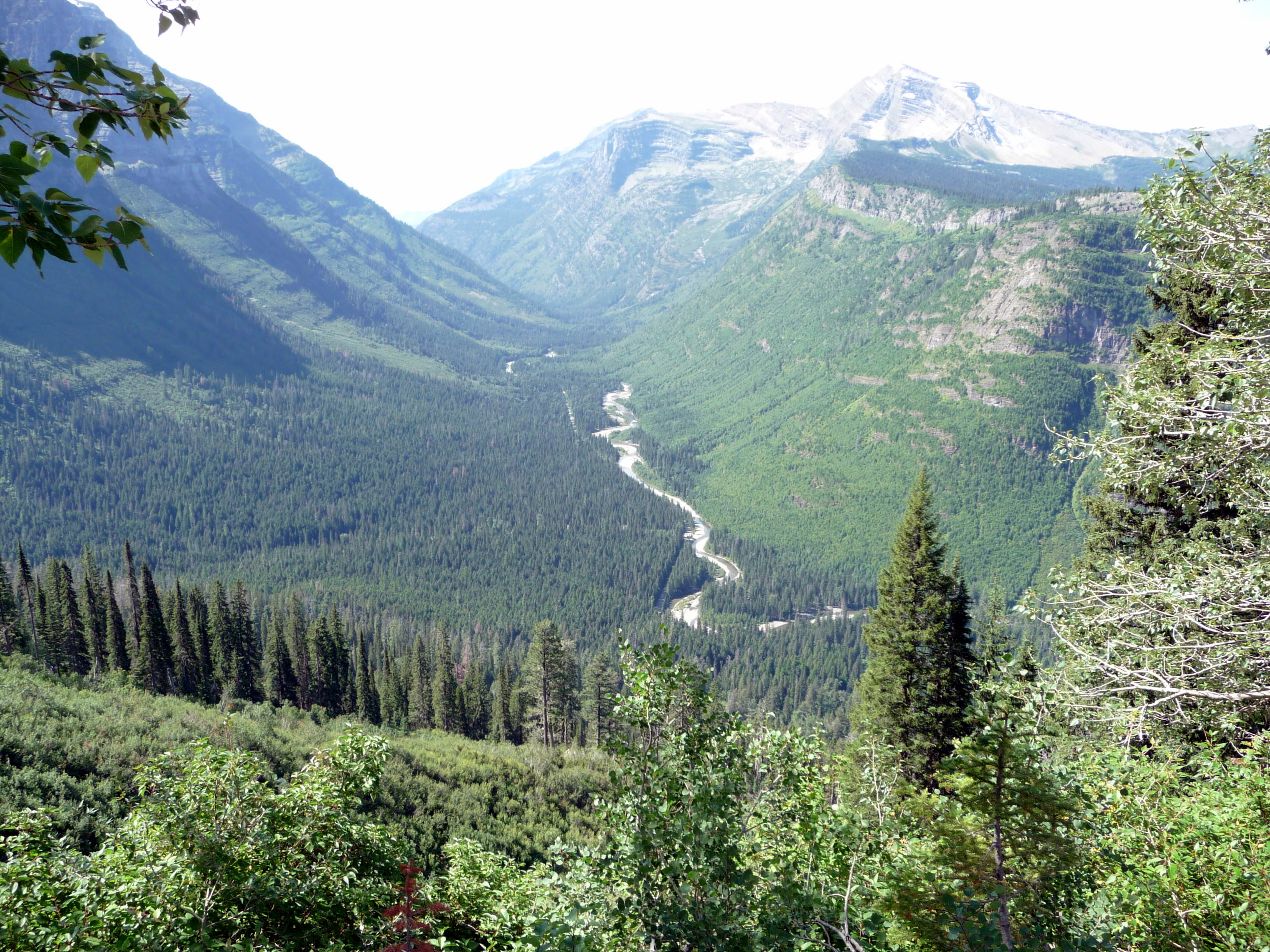 Glacier National Park